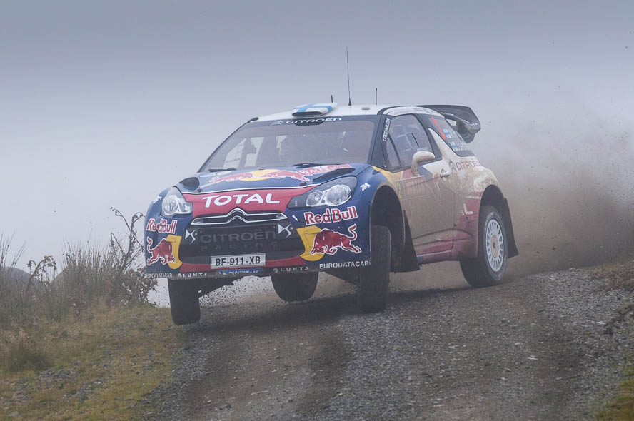 Wales Rally Great Britain 2012 Citroen DS3 WRC,Citroen Total WRT,Citroen Total World Rally Team,Halfway 1,Jarmo Lehtinen,Mikko Hirvonen,Motorsport,Rally,Rallye,SS9,WP9,WRC,Wales Rally GB